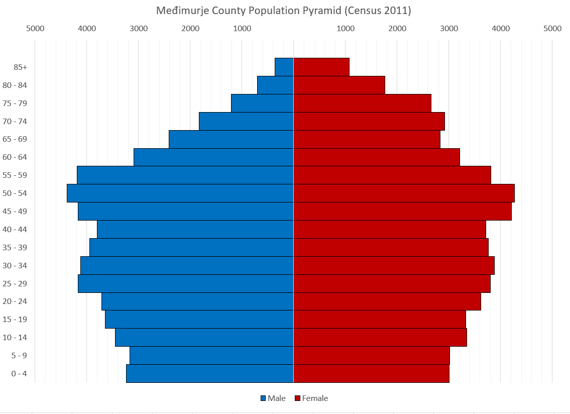 Population pyramid of Međimurje County. Version in English. Data from 2011 Census; available at